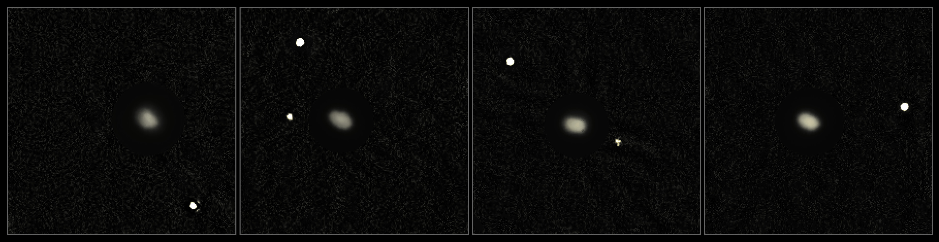 Astronomers have discovered a new satellite orbiting the main belt asteroid (130) Elektra — the smallest object visible in this image. The team, led by Bin Yang (ESO, Santiago, Chile), imaged it using the extreme adaptive optics instrument, SPHERE, installed on the Unit Telescope 3 of ESO’s Very Large Telescope at Cerro Paranal, Chile. This new, second moonlet of (130) Elektra is about 2 kilometres across and has been provisionally named S/2014 (130) 1, making (130) Elektra a triple system.